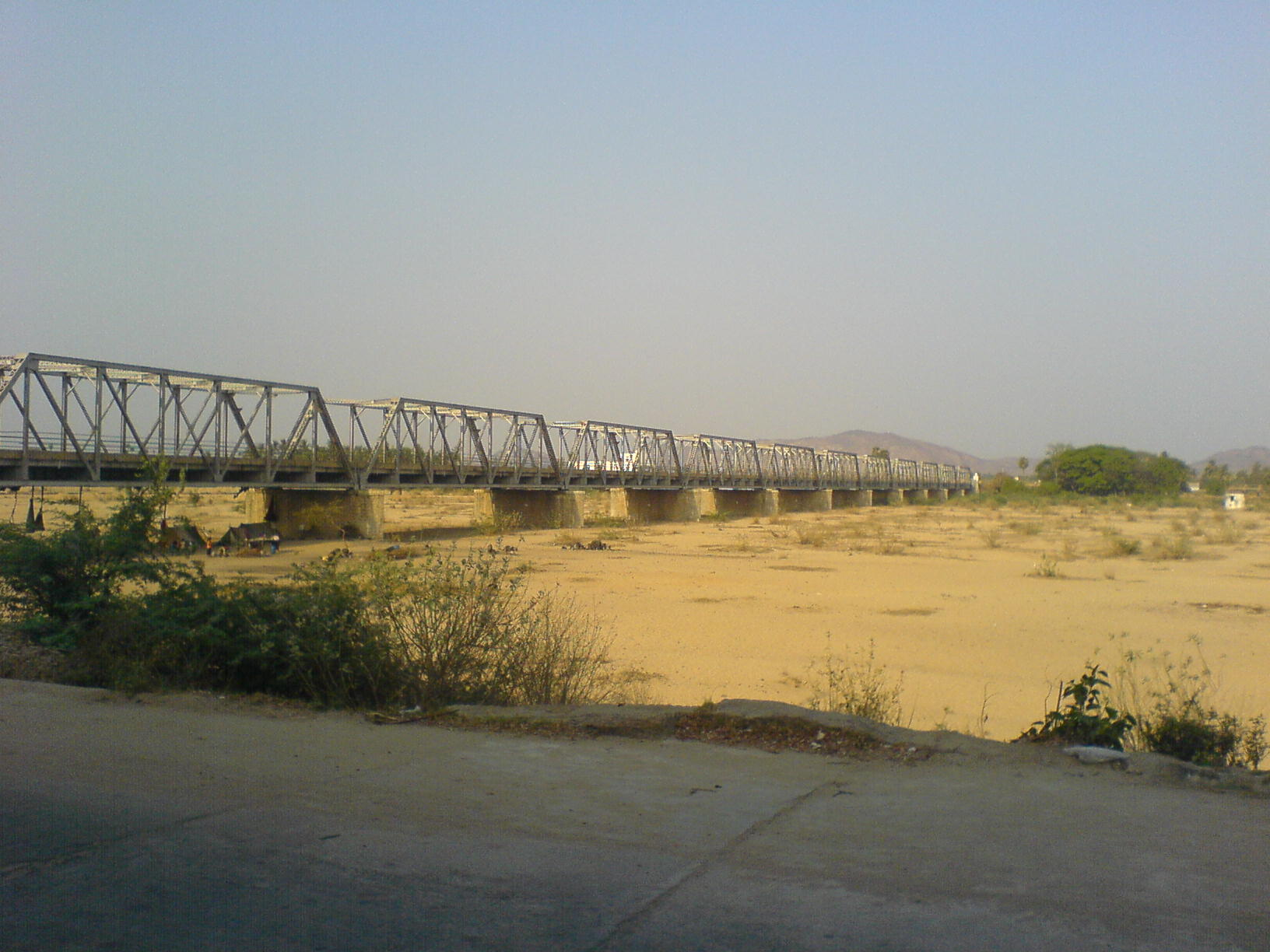 British period Thiruvalam bridge in across river Ponnai in Vellore district, TamilNadu